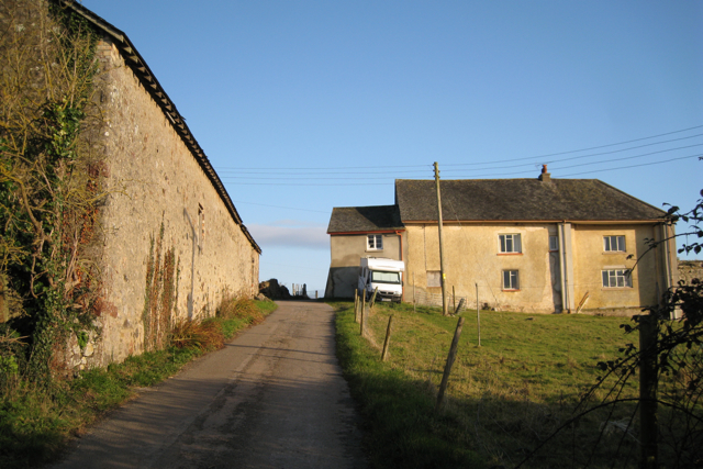 Farmhouse and barn, Whiteway Barton My thanks to two ladies in a 4x4 for permission to walk the private road and take photographs.